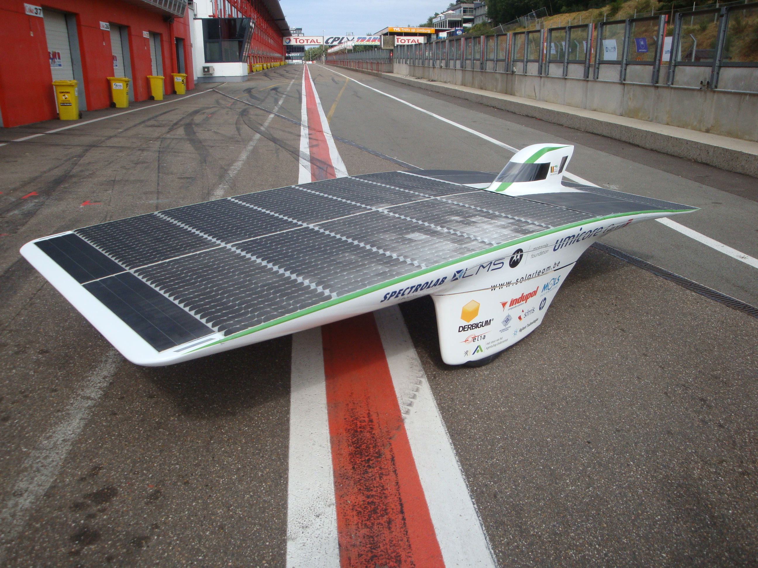 Photograph of the Umicar Inspire at its presentation on the racetrack of Zolder.